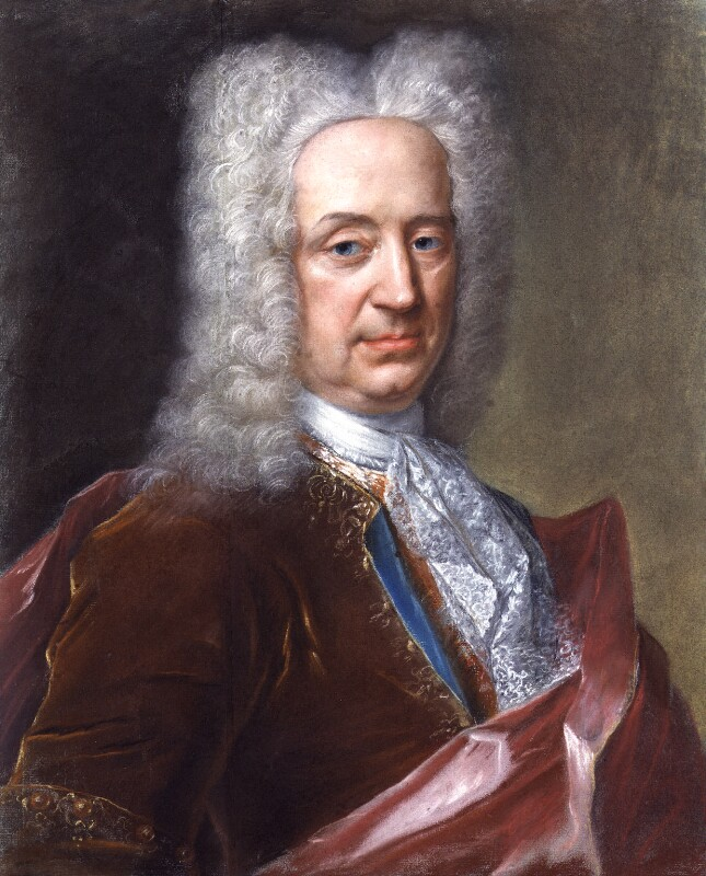 Charles Whitworth, Baron Whitworth by Guillaume Birochon NPG 5417